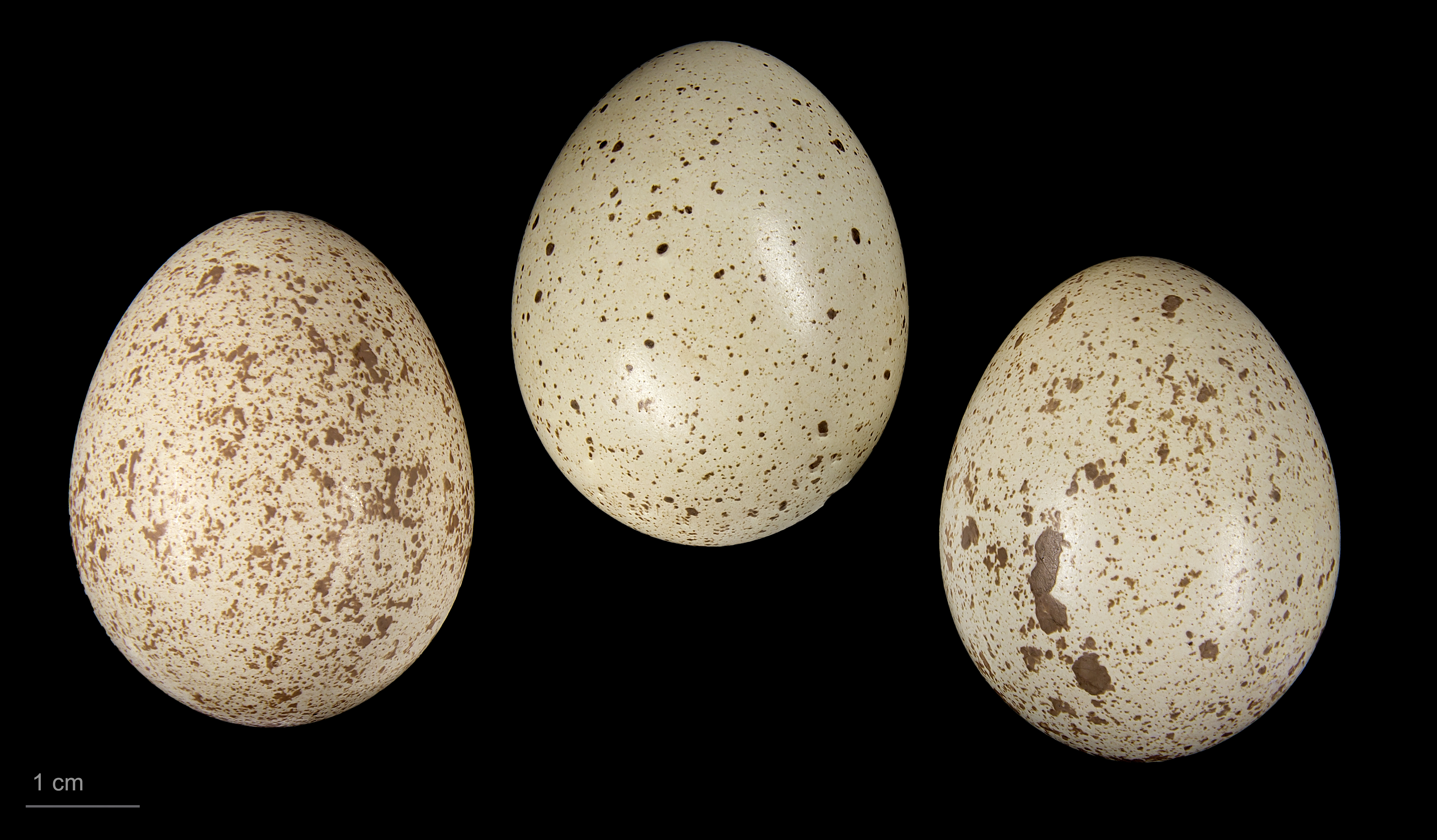 Egg of Alectoris chukar Collection of Jacques Perrin de Brichambaut.